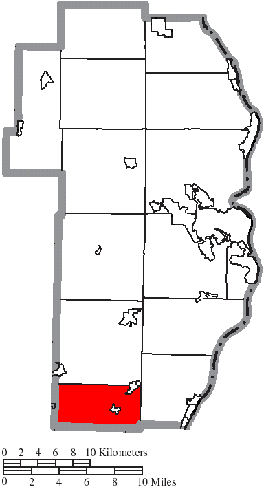 Map of the municipal and township boundaries of Jefferson County, Ohio, United States, as of the 2000 census, with the location of Mount Pleasant Township highlighted. Township borders are shown only in unincorporated areas in order to differentiate incorporated and unincorporated areas more clearly.